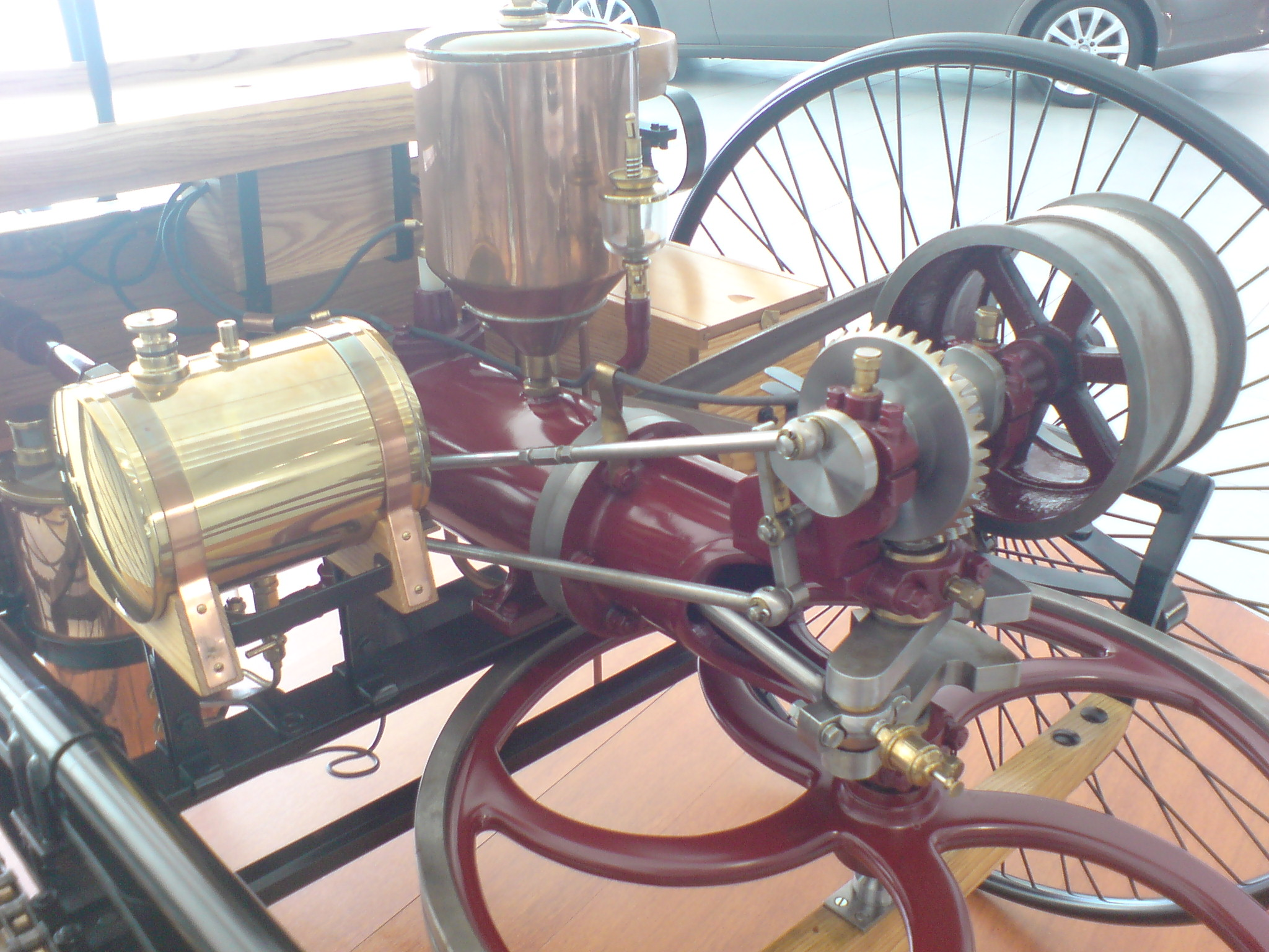 1886 Patent motorwagen shown in a Mercedes Showroom in Jeddah, Saudi Arabia